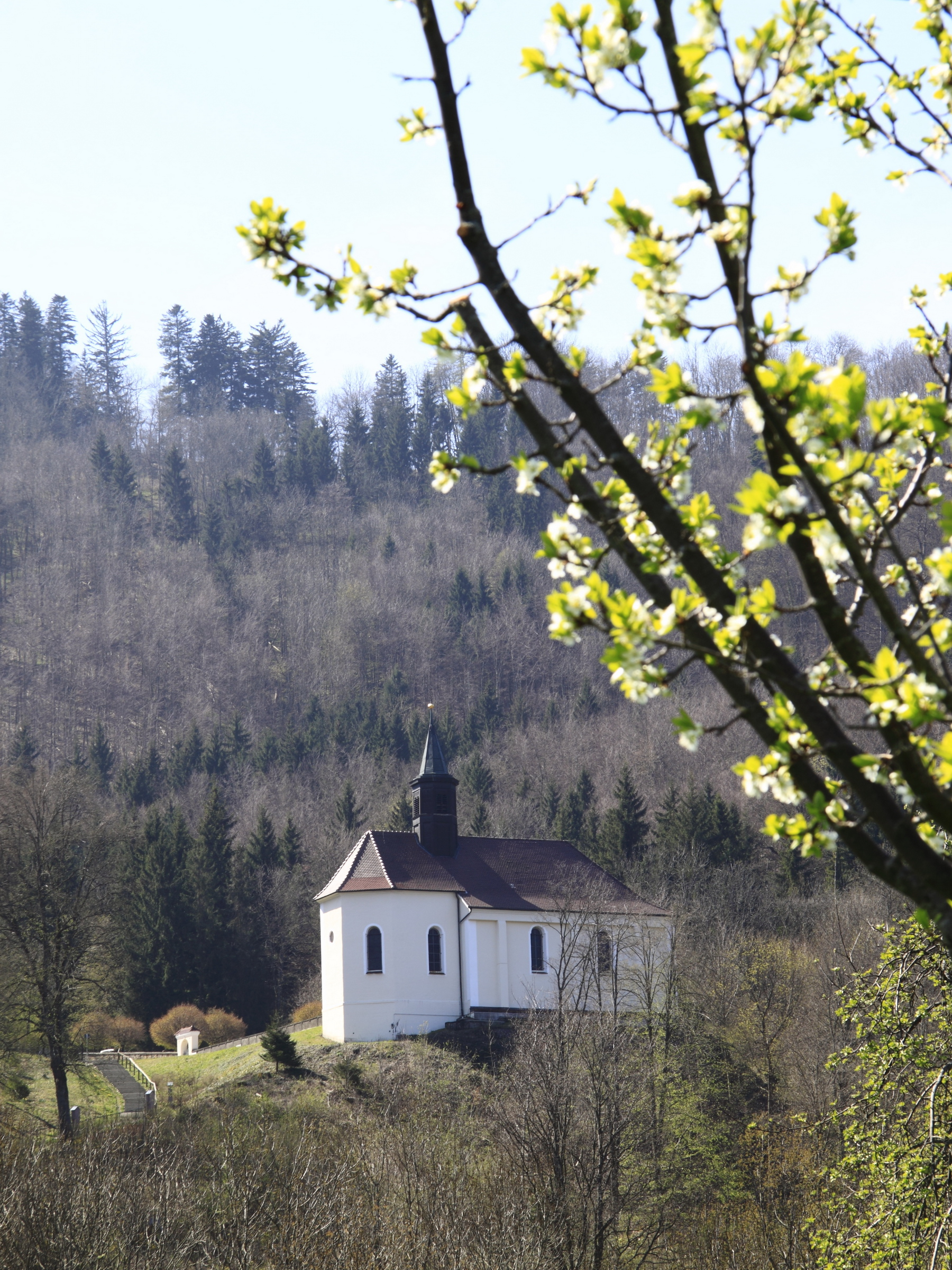 pilgrimage church Maria Zell close to Hechingen-Boll, Germany